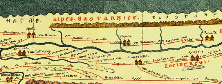 Part of Tabula Peutingeriana centered around present day Transylvania (north western Romania), 1-4th century CE. Facsimile edition by Conradi Millieri, 1887/1888